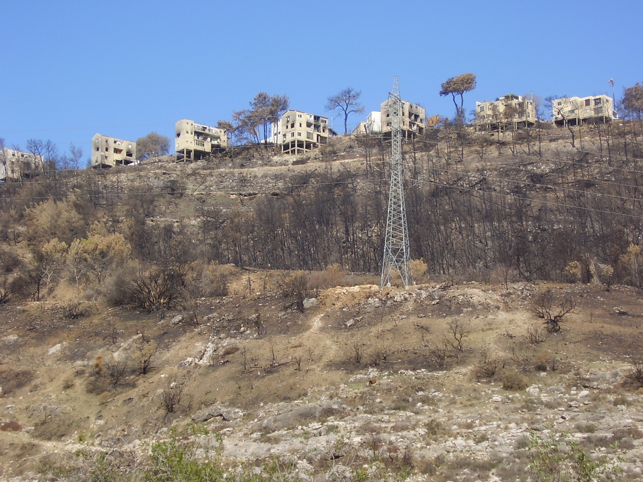 the burnt kibbutz beit- oren and carmel park